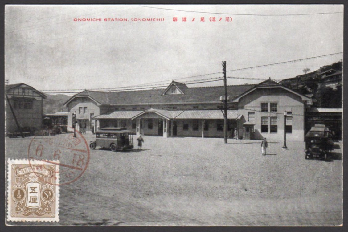 Onomichi Station postcard, Japan, 1918 with Japanese stamp.